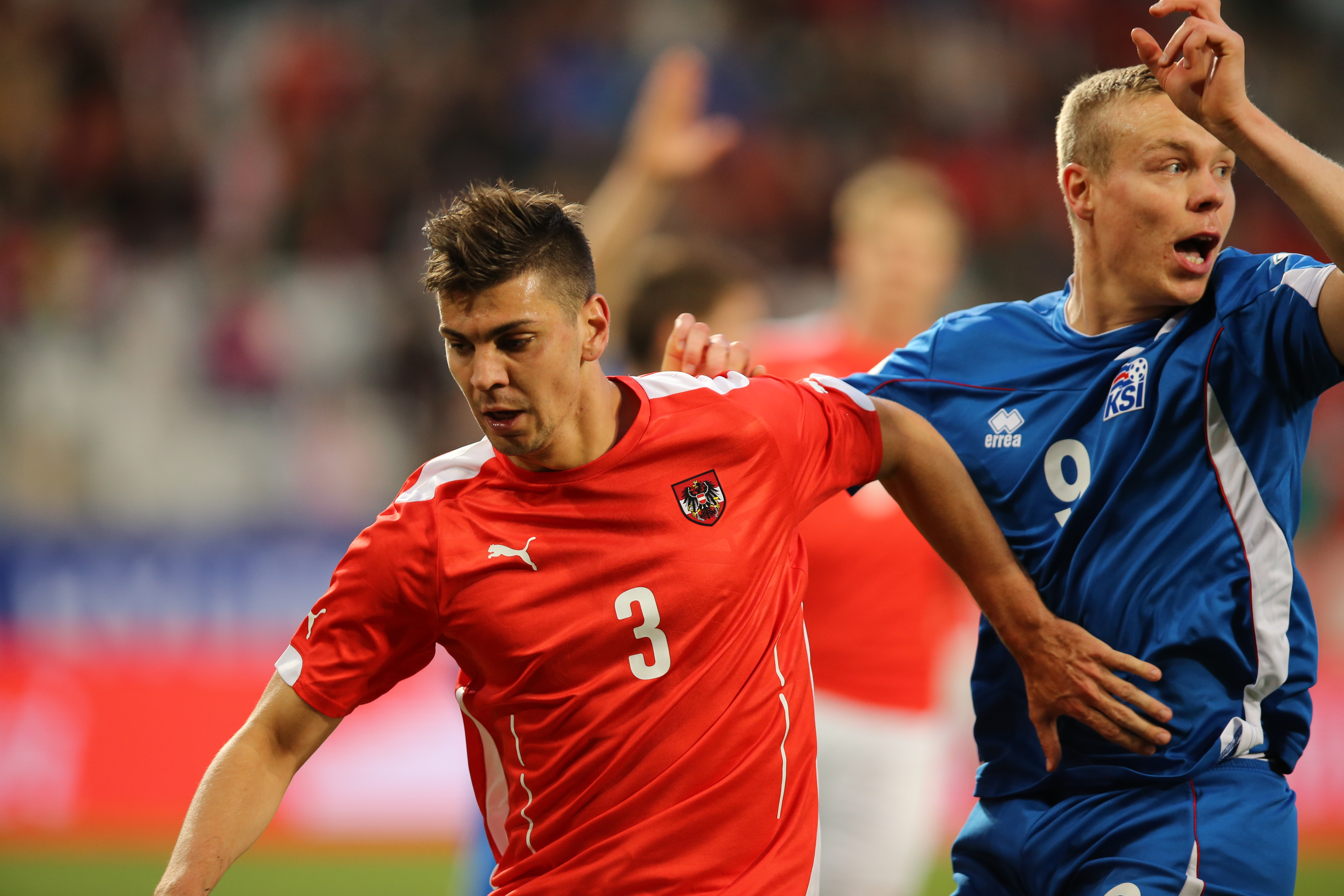 Austria - Iceland football match in Innsbruck, Austria on 2014-05-30. Austria in red, Iceland in blue.